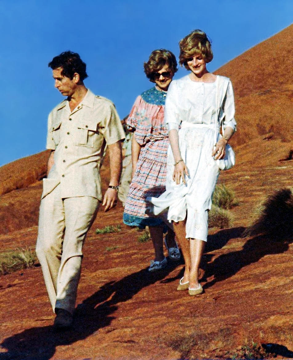 I took this photo of the Royal visit while working at the Aboriginal community, Mutitjulu at Uluru (Ayers Rock) in March 1983